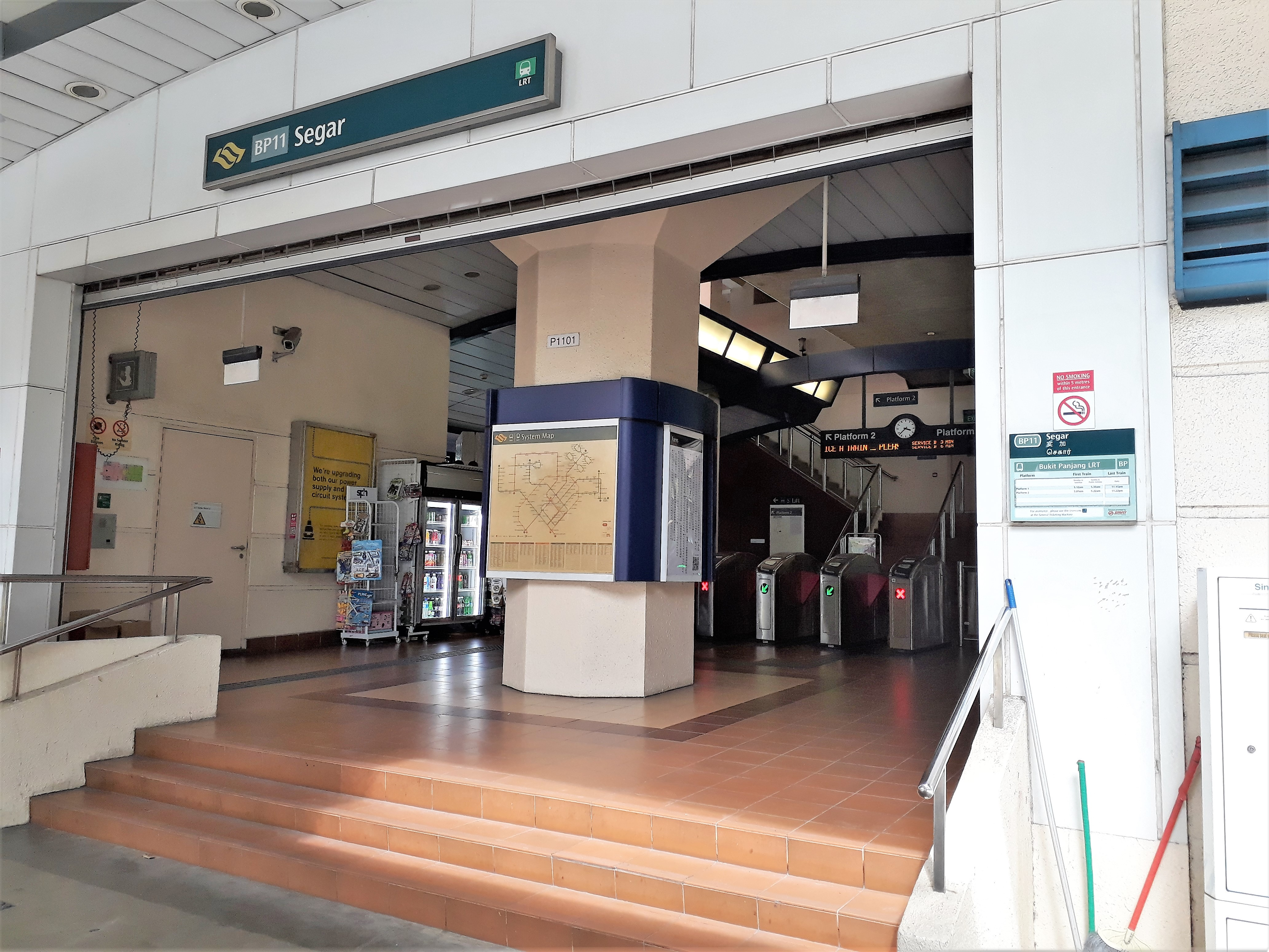 Entrance to Segar LRT Station